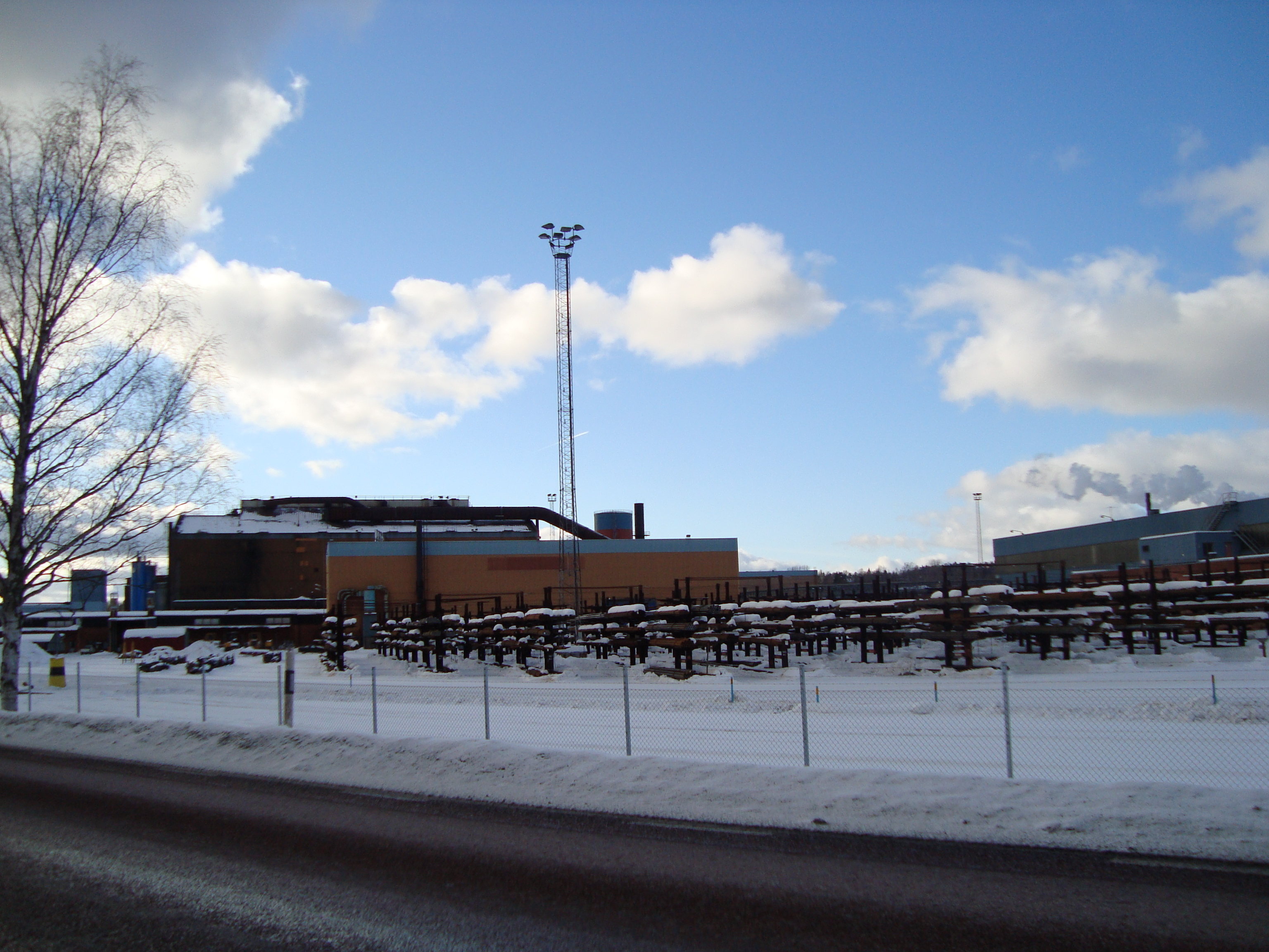 Ovako Steel, Hofors, Sweden